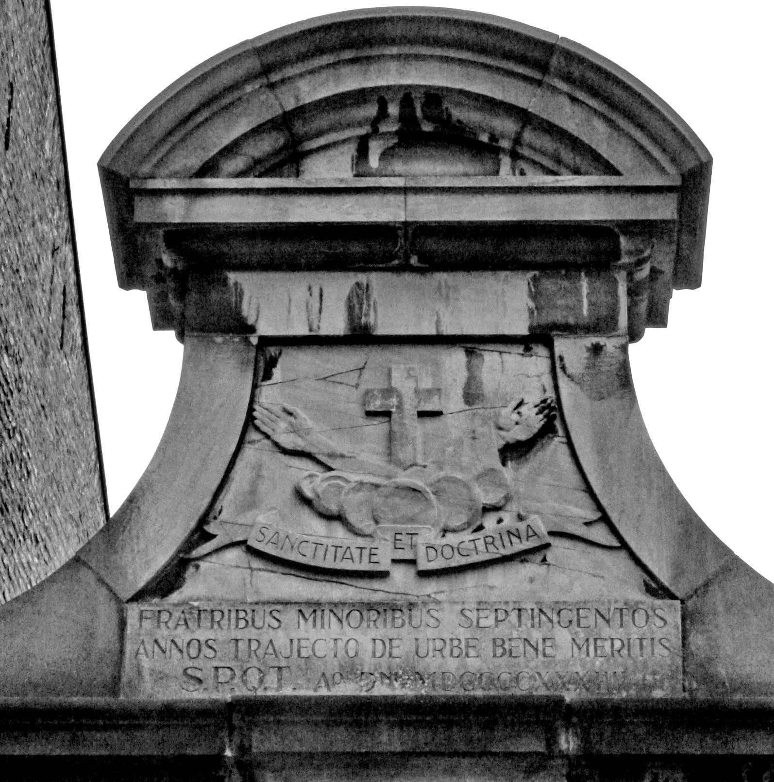 Relief of the gate of the former Third Franciscan Monastery at Patersbaan-Tongersestraat, Maastricht, the Netherlands.